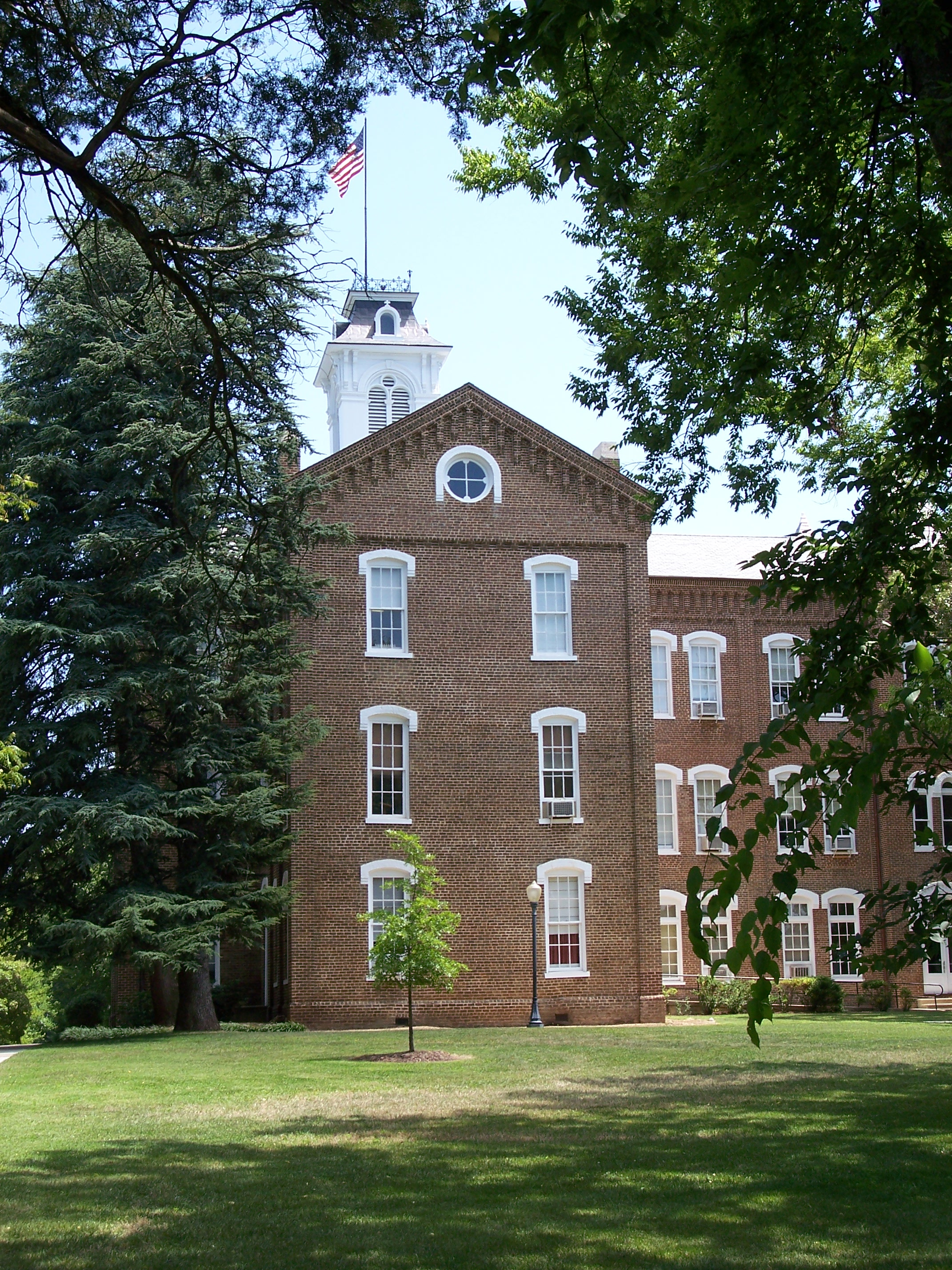 Anderson Hall of Maryville College in Maryville, Tennessee